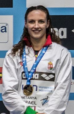 Swimmer Katinka Hosszú wearing the gold medal she won at the 100m backstroke, 2015 European Short Course Swimming Championships, Netanya